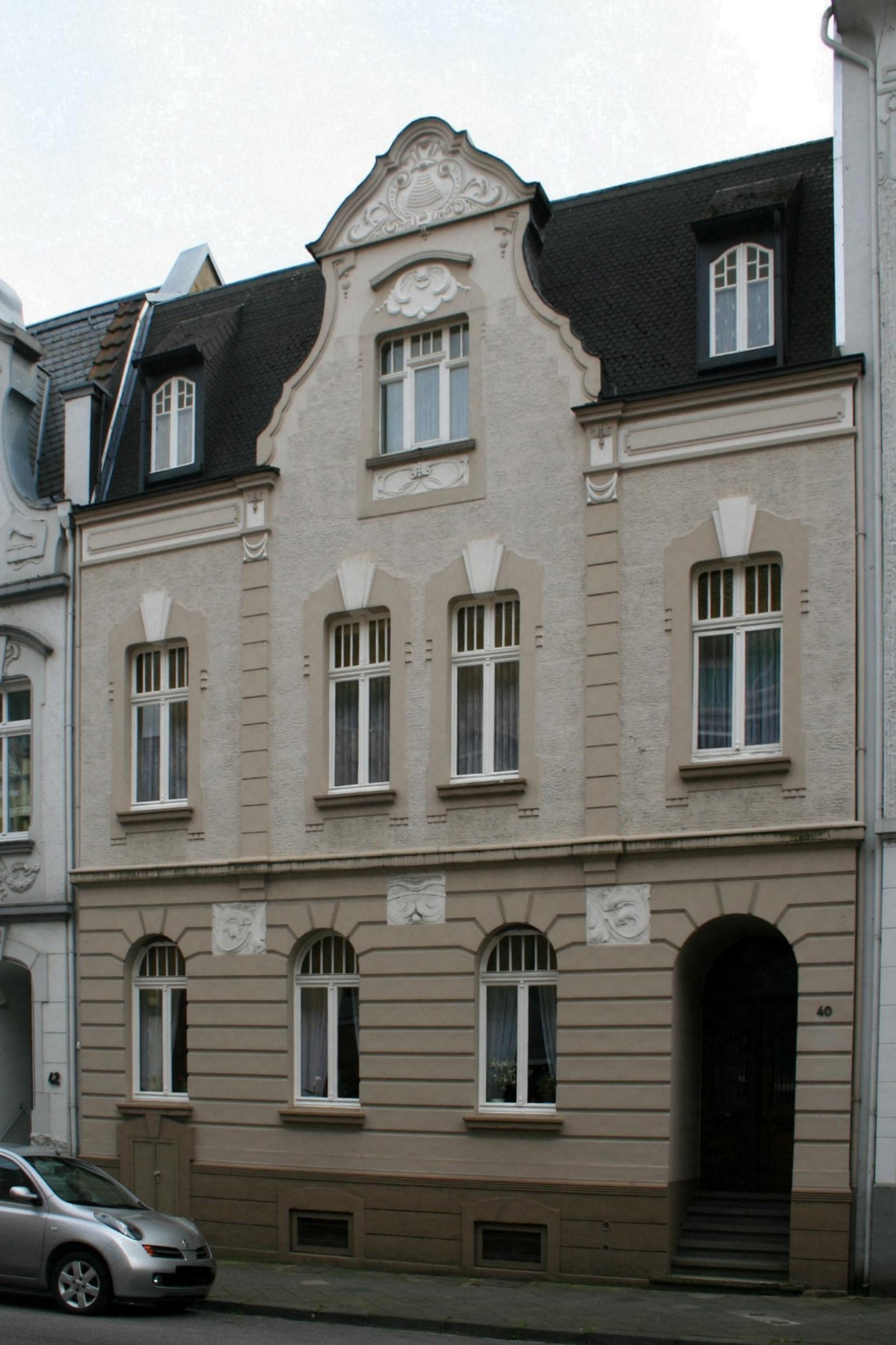 Cultural heritage monument No. H 085 in Mönchengladbach